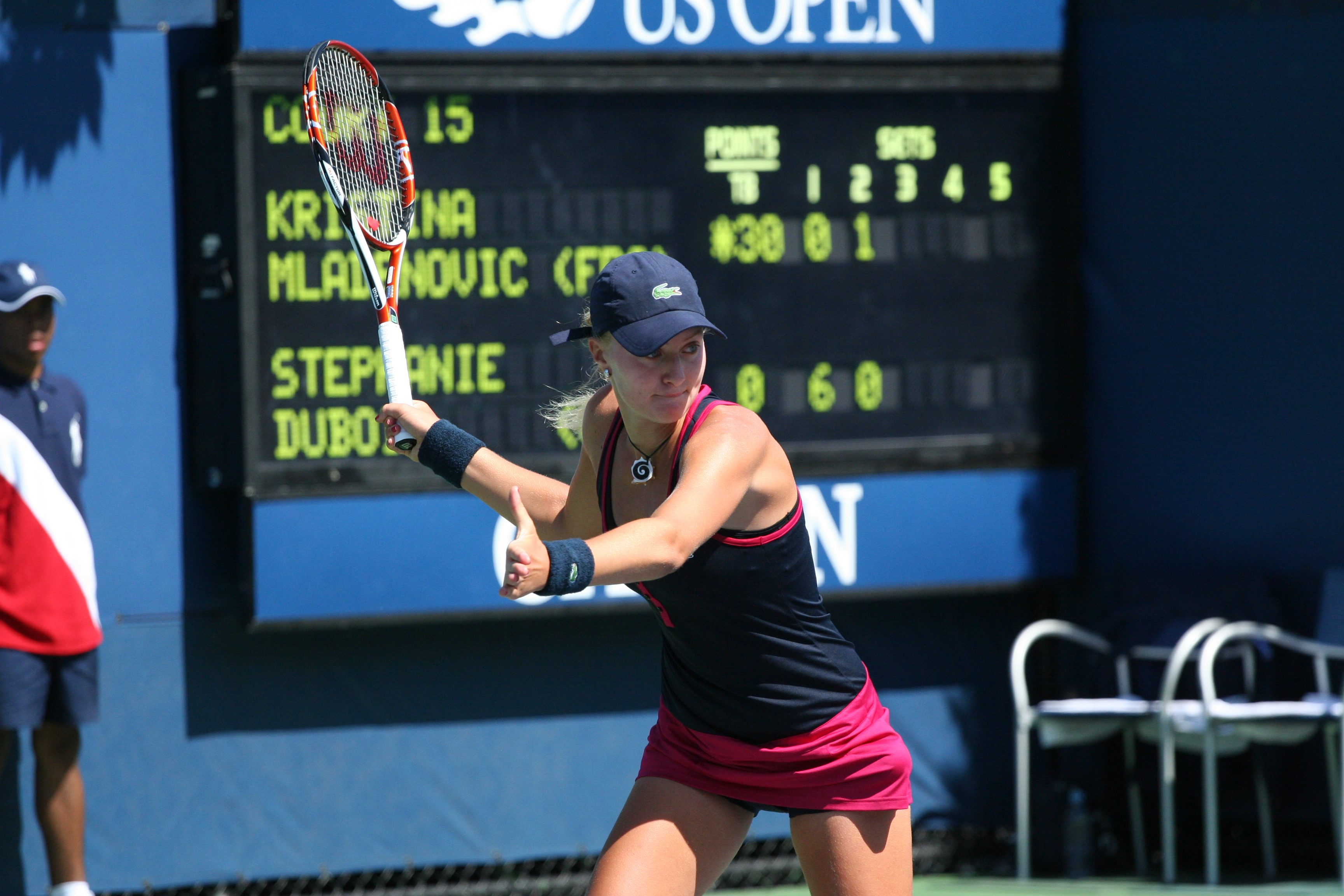 U.S. Open Tuesday, Sept. 1, 2009